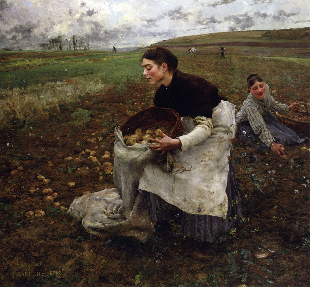 Jules Bastien-Lepage, Saison d'Octobre: Recolte des pommes de terre, 1879. (National Gallery of Victoria)